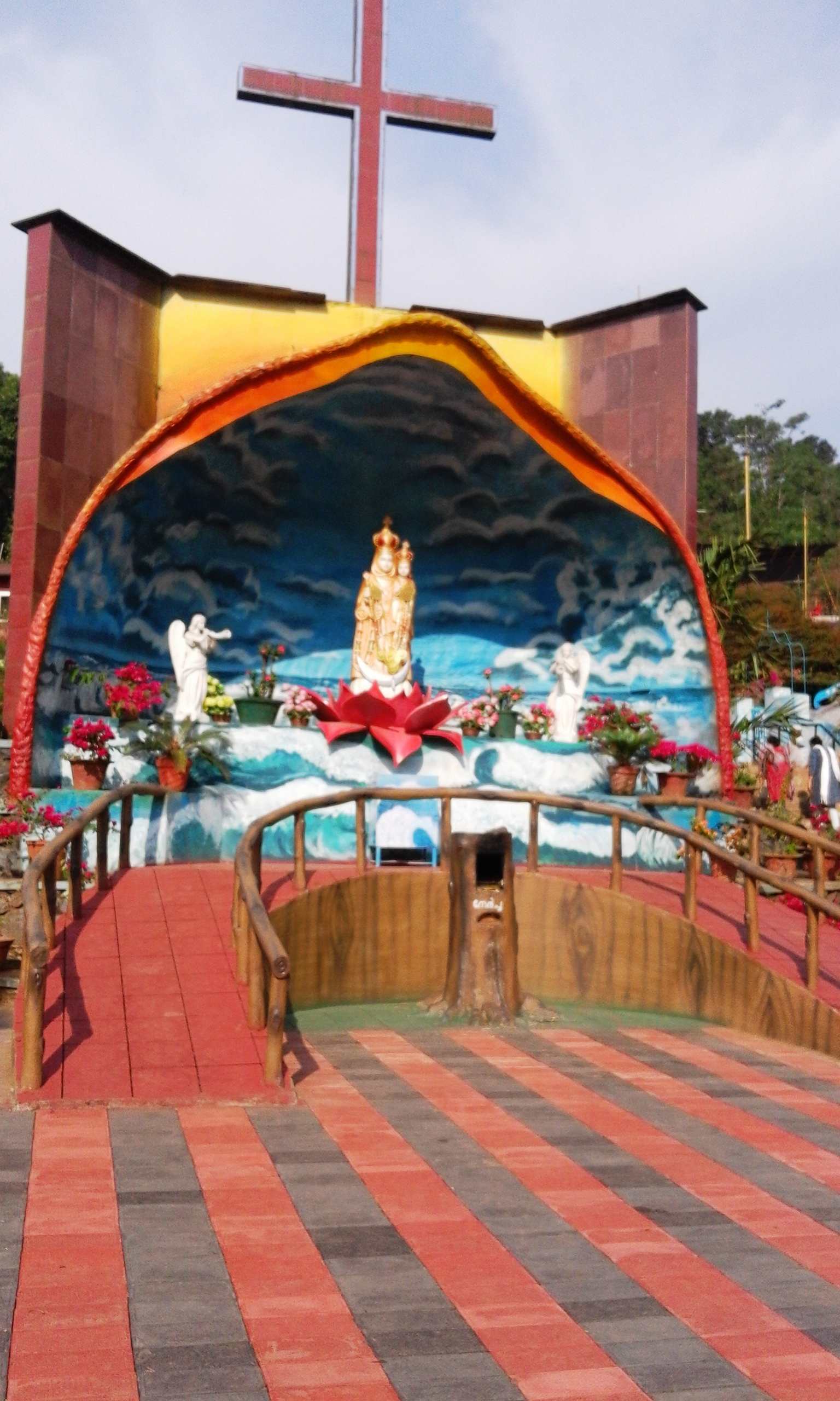 Wayanad District, Kerala province, India.